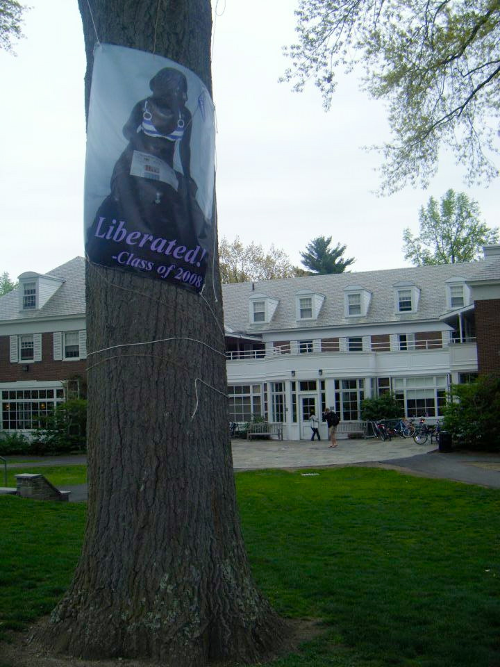 This photo shows a large poster announcing Sabrina's liberation on the dining quad at Amherst College.